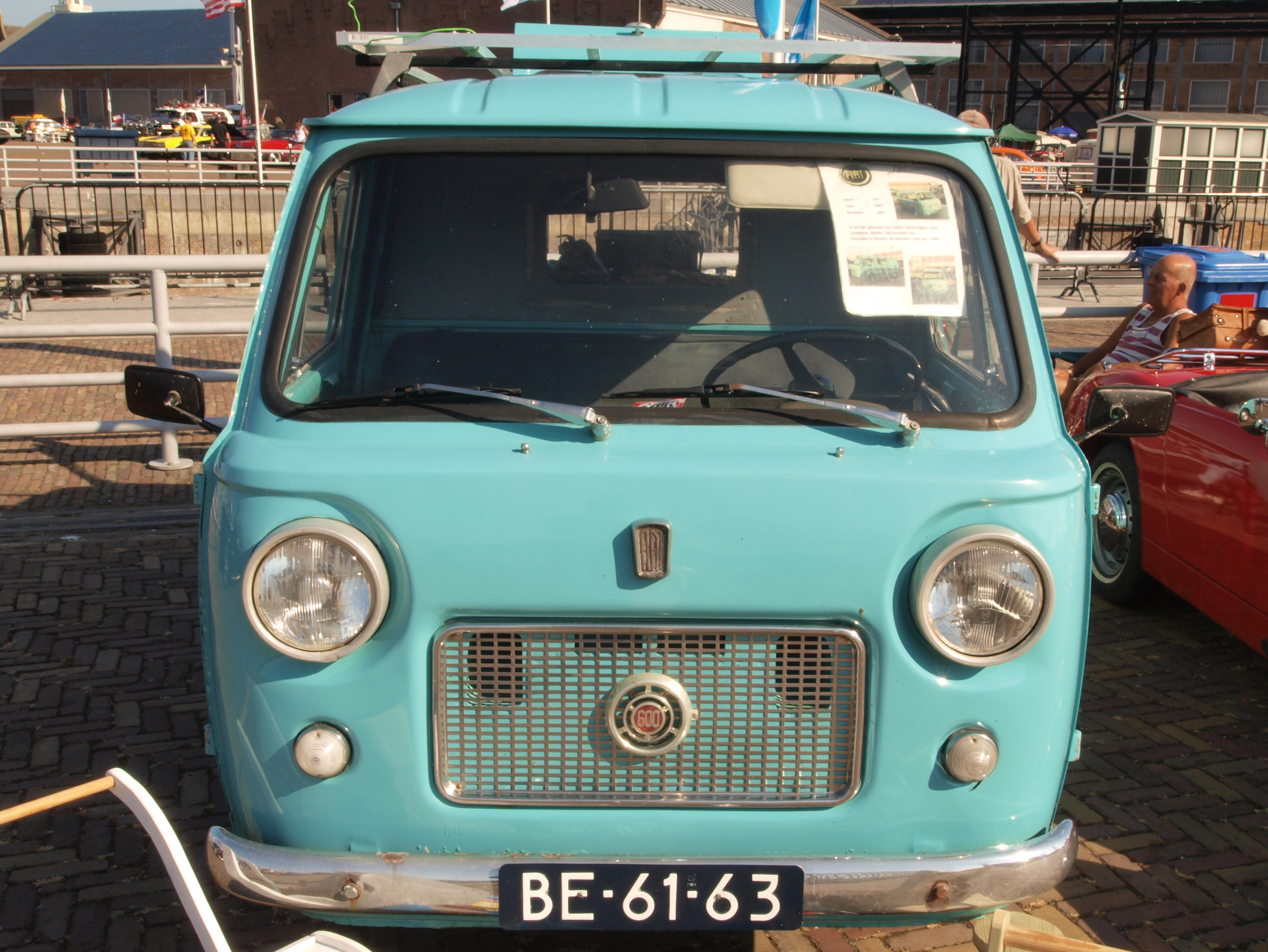 Photographed at Den Helder, The Netherlands. OLYMPUS DIGITAL CAMERA